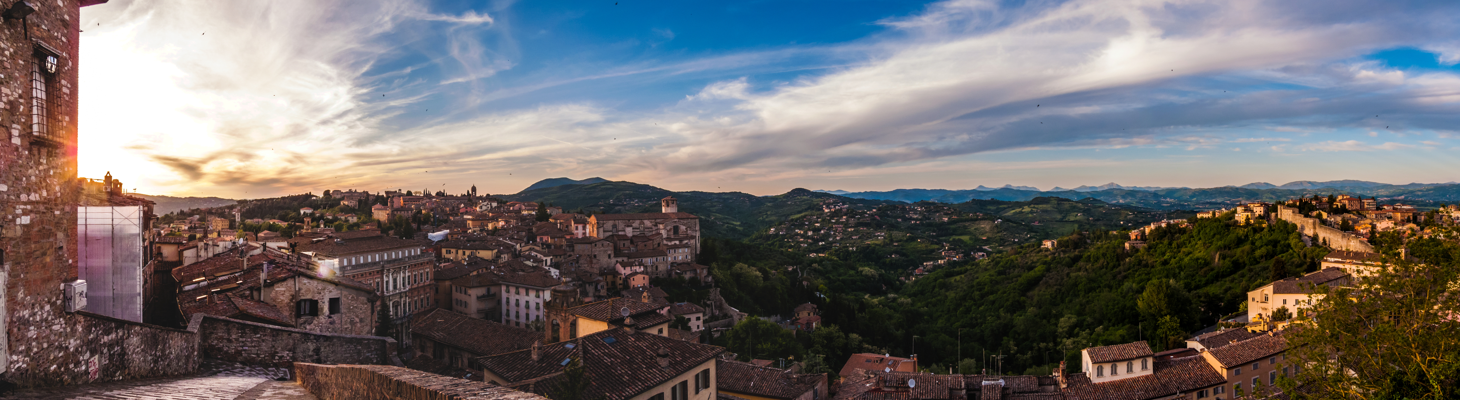 View of Perugia in the sunset from Porta Sole.